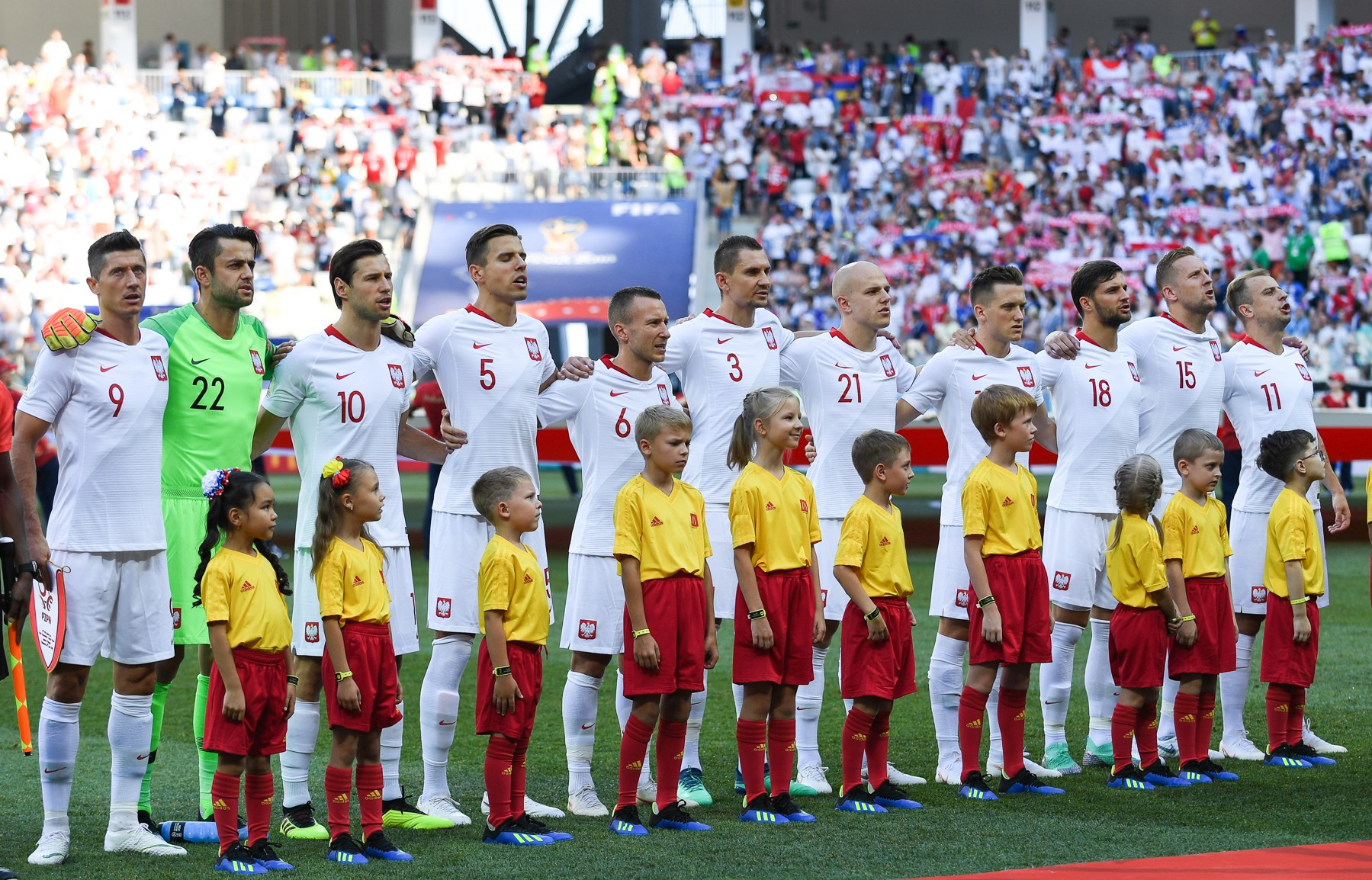 Poland national football team